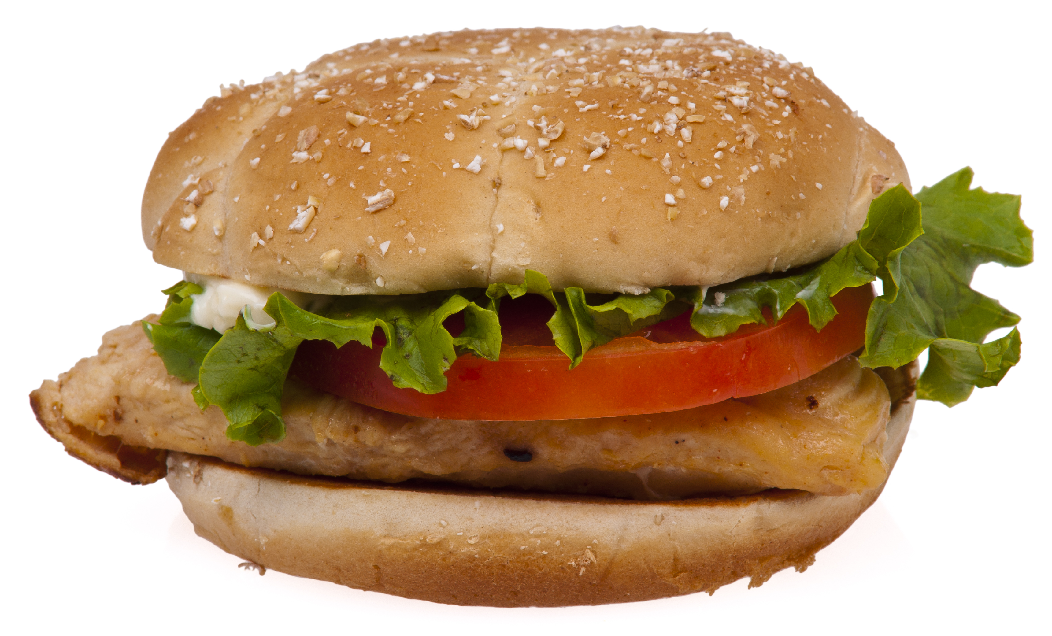 A Classic Grilled Chicken Sandwich from McDonald's, as bought in America.